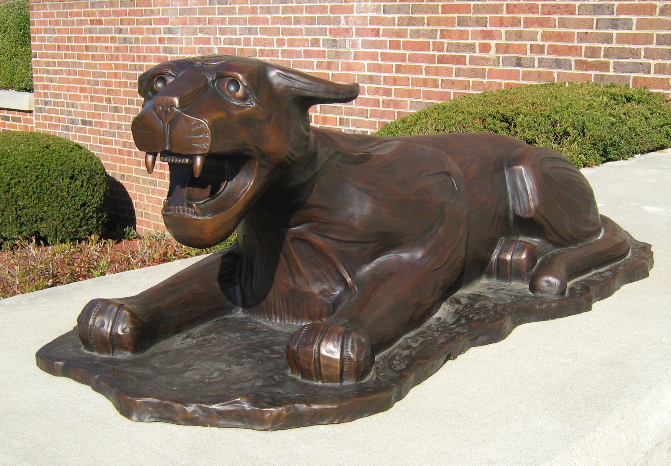 Concord University in Athens, West Virginia - The official mascot - the Mountain Lion - statue in front of the Library